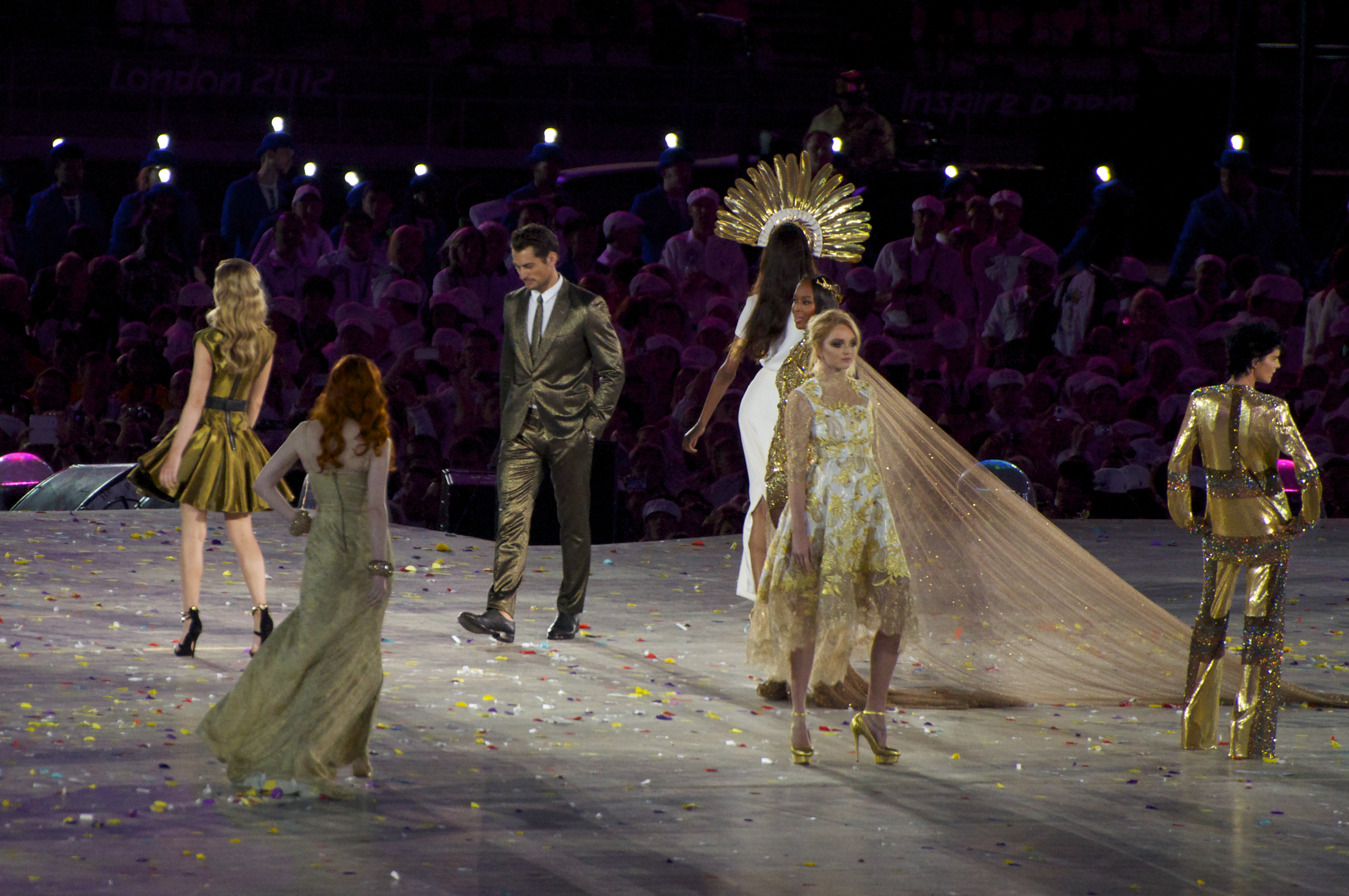 Jourdan Dunn, David Gandy, Lily Cole, Naomi Campbell, Stella Tennant, Georgia May Jagger and Karen Elson pose during the closing ceremony.